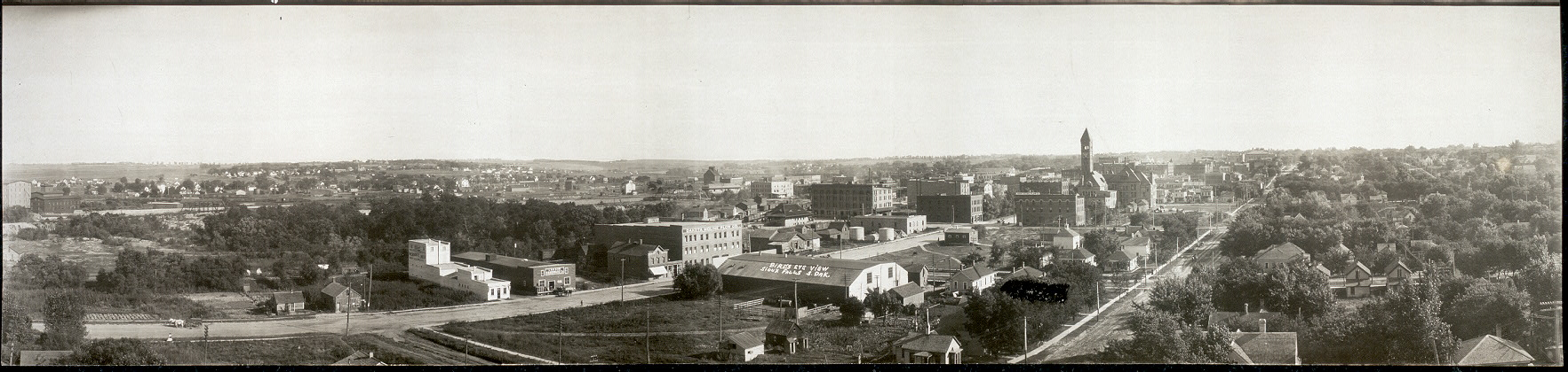 Bird's eye view of Sioux Falls, South Dakota, USA in 1907. Looking east (left side) to south (right side). Old Minnehaha County Courthouse is seen at the center-right, and the Queen Bee Mill can be seen to the extreme left.